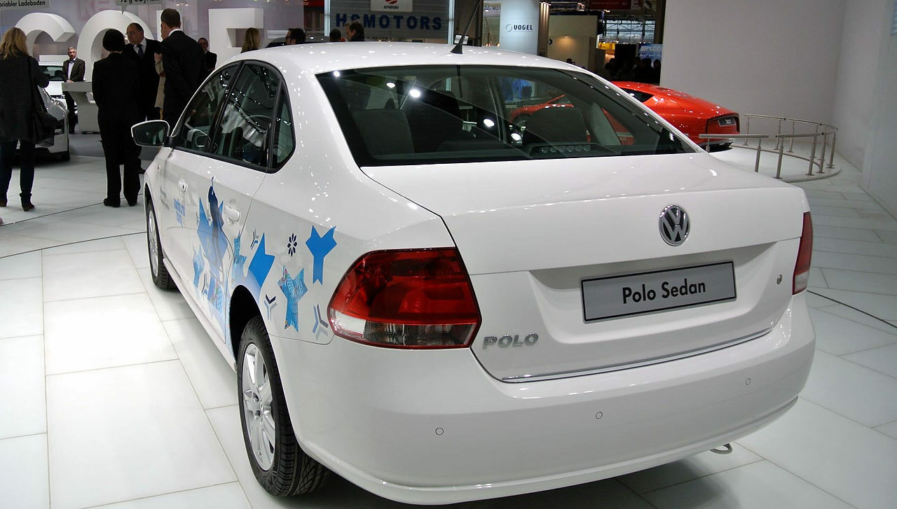 Volkswagen Polo Sedan at Hannover Messe 2013 _________________ Please feel free to use this image for FREE under the Creative Commons (CC) licence. However, if you use the image, pls set a backlink to and give credit as following: "Image: ". For highres images or any other inquiries pls contact mailto: . Thanks.